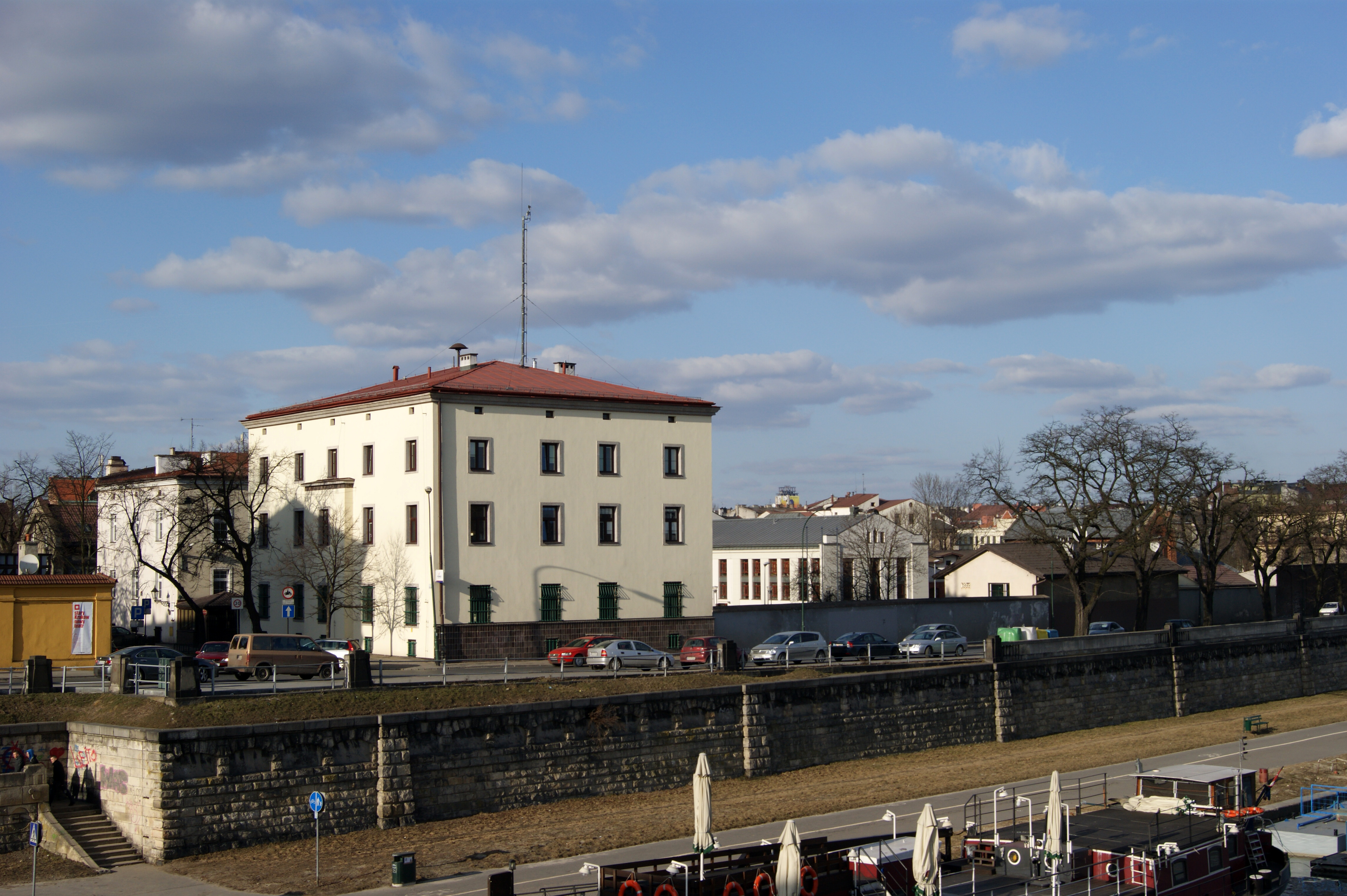 City gasworks, 16 Gazowa street, Kazimierz, Krakow,Poland